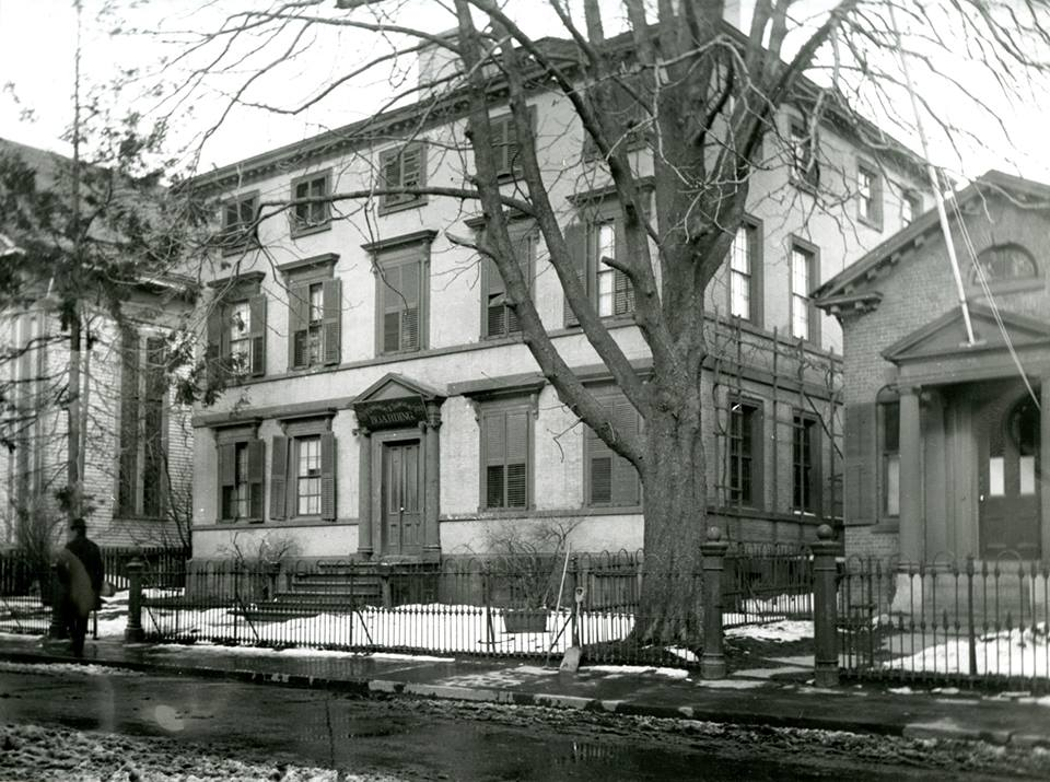 Francis Malbone House, 392 Thames St. Newport RI. Photograph dated 1888.